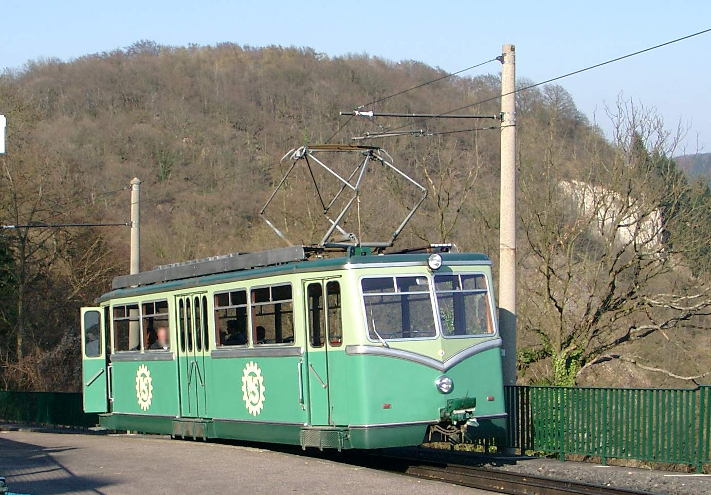 Electrical motor coach at the mountain station of the Drachenfels Railway